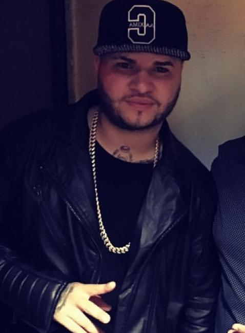 Farruko & Ale Medina GTM